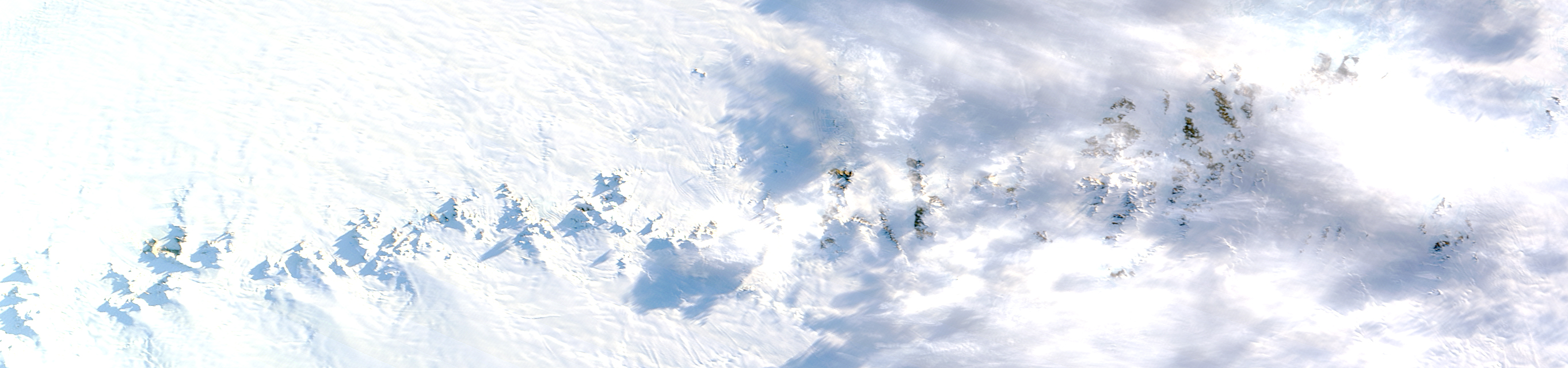 On April 5, 2015, the Moderate Resolution Imaging Spectroradiometer (MODIS) on NASA’s Terra satellite acquired this natural-color image. of sea ice off the coast of East Antarctica’s Princess Astrid Coast. This cropped image shows the Fimbulheimen mountains from the Gjelsvik Mountains in the west to the Lomonosov Mountains in the east. Credit: NASA image by Jeff Schmaltz, LANCE/EOSDIS Rapid Response. Caption by Kathryn Hansen via NASA's Earth Observatory NASA image use policy.